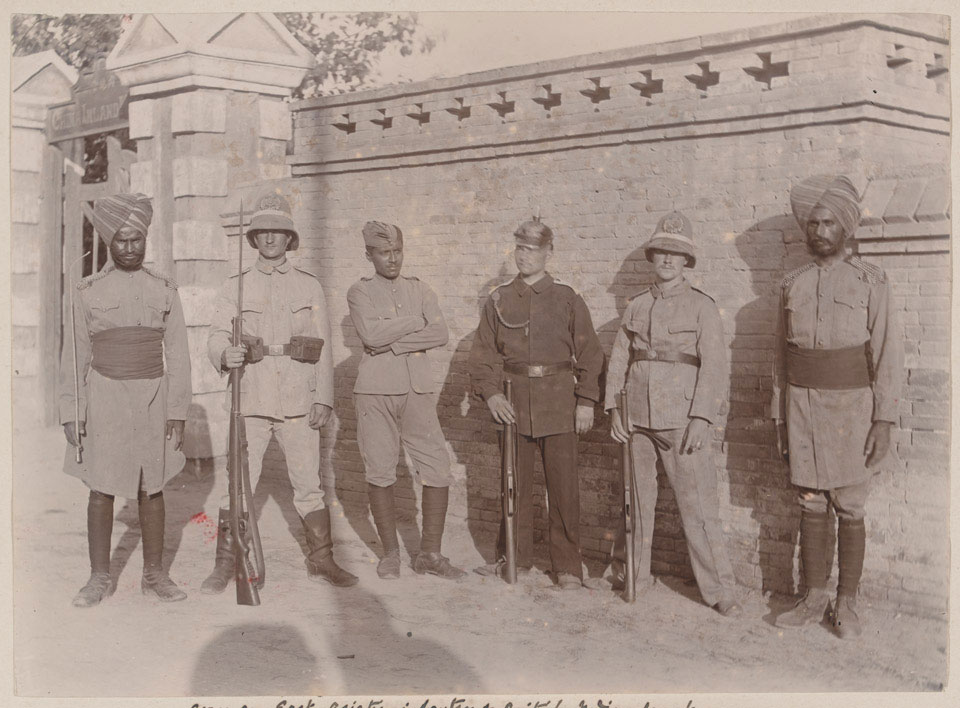 The soldiers were part of the 20,000-strong multinational coalition force that was sent to Peking's legation quarter to rescue besieged foreign diplomats, foreign civilians and Chinese Christians. The latter were under siege by the Boxers for 55 days.